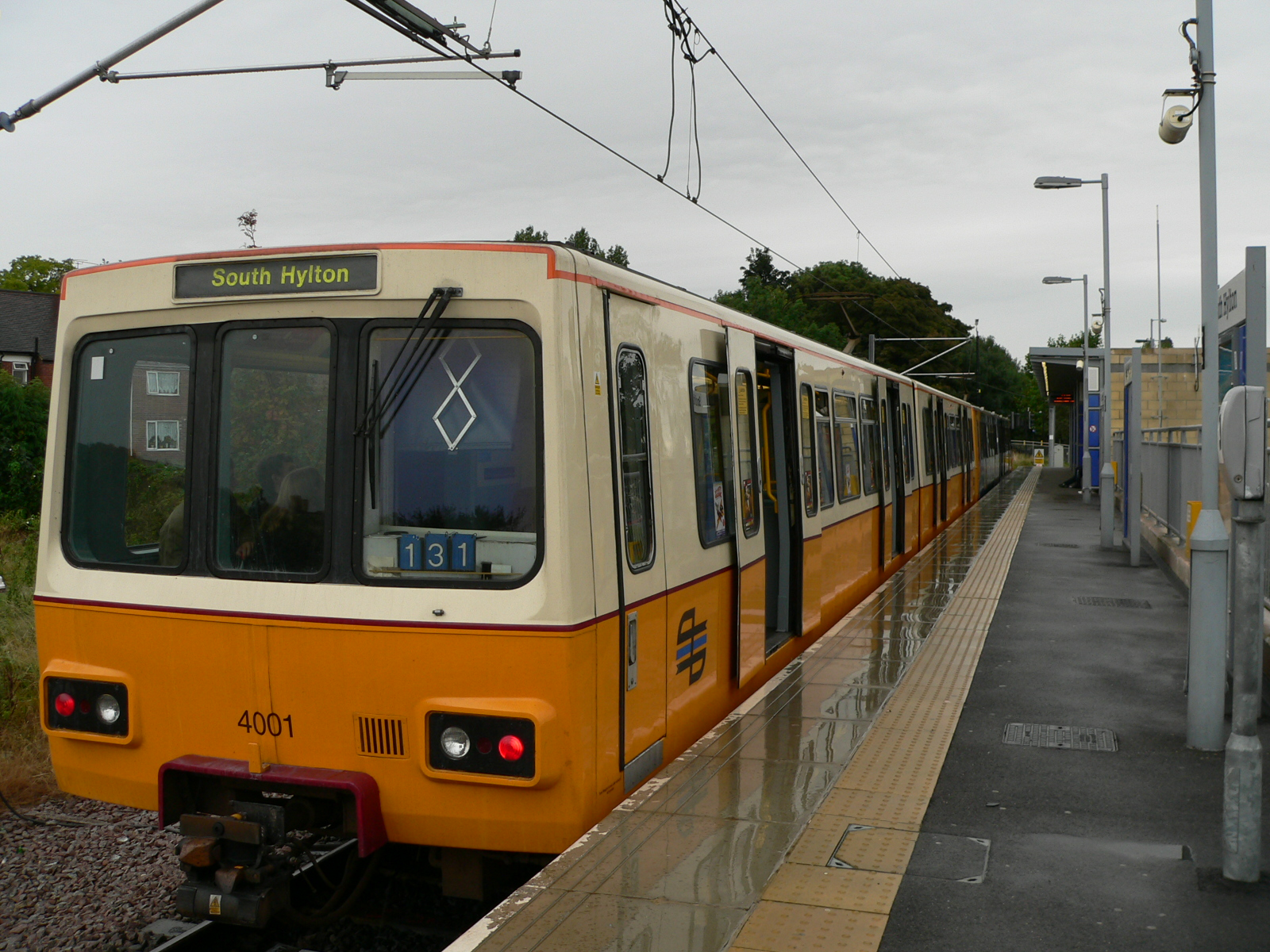 Prototype Tyne and Wear Metro train 4001 in original livery (cadmium yellow and white with a maroon stripe) at South Hylton station.